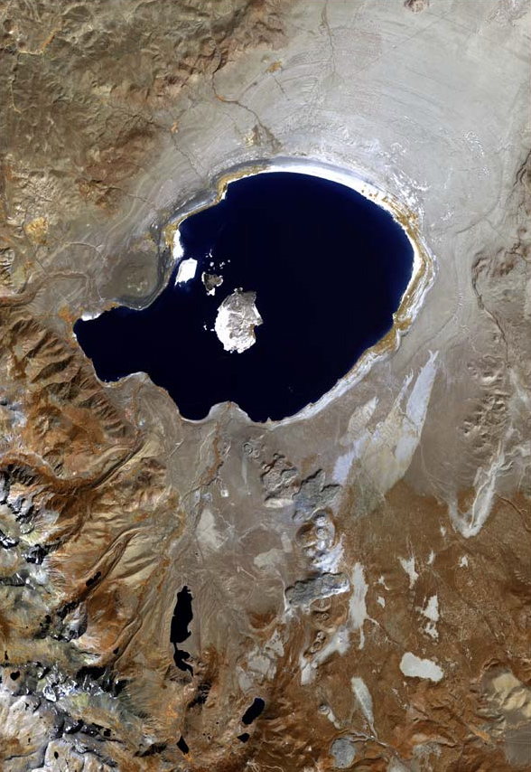 Satellite picture of Mono Lake - Mono County, California. The raw satellite imagery shown in these images was obtain from NASA and/or the US Geological Survey. Post-processing and production by